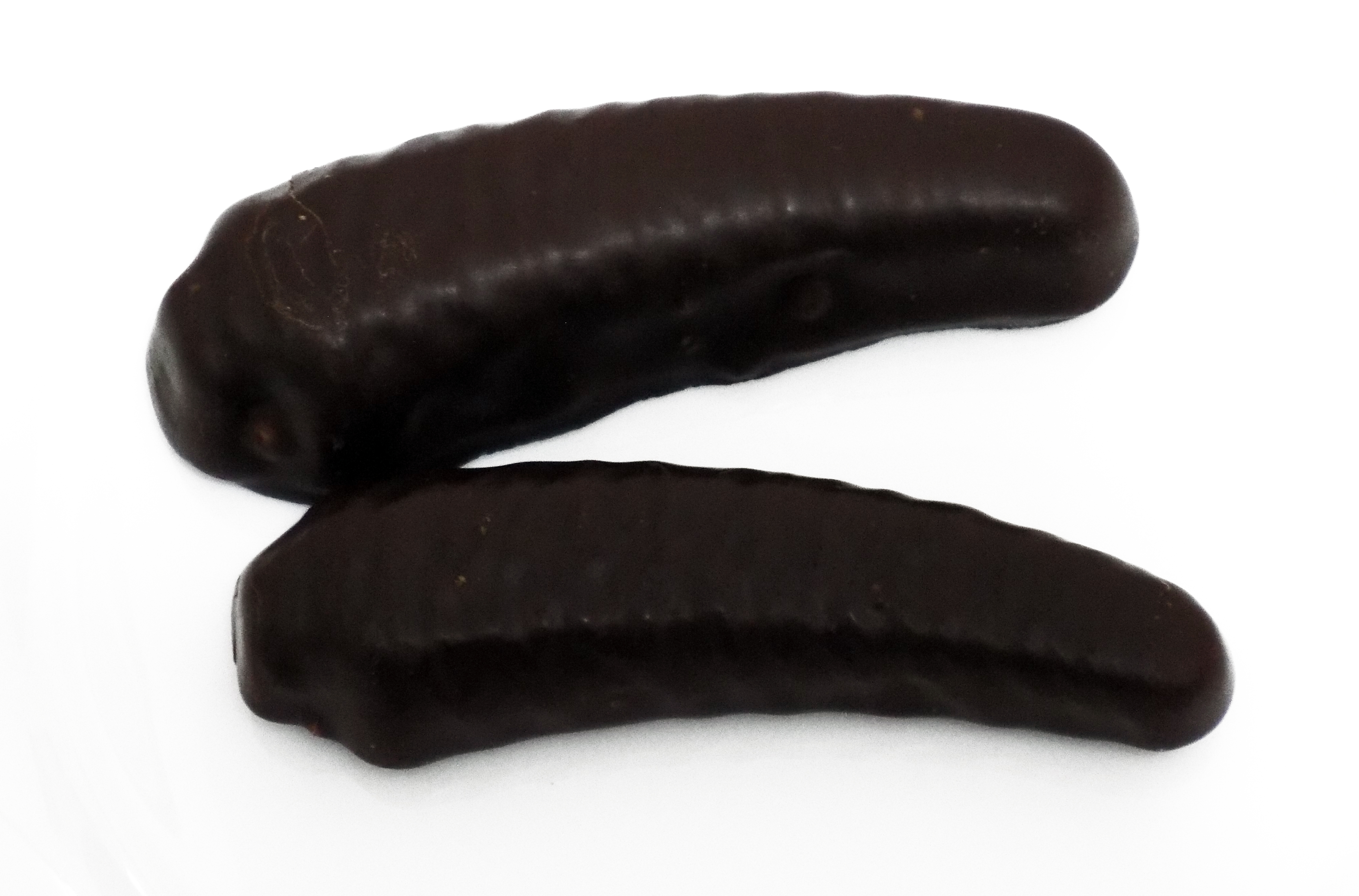 "Bananica" (Cream banana), Serbian brand since 1938.